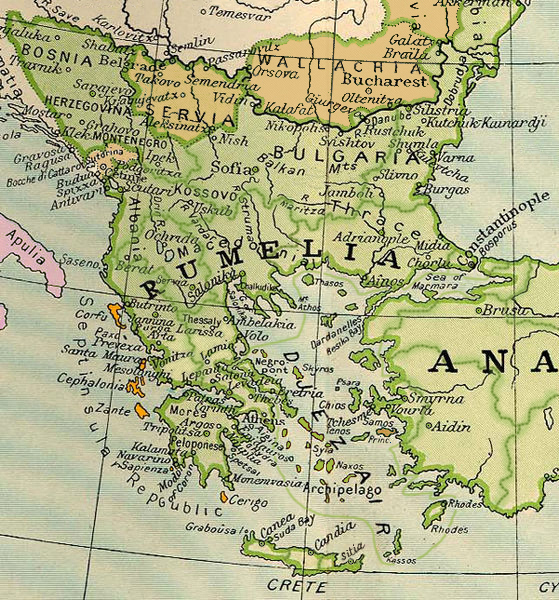 Ottoman Greece & Balkans until 1830, map from 1913, This work is in the public domain in its country of origin and other countries and areas where the copyright term is the author's life plus 70 years or fewer. You must also include a United States public domain tag to indicate why this work is in the public domain in the United States. Note that a few countries have copyright terms longer than 70 years: Mexico has 100 years, Jamaica has 95 years, Colombia has 80 years, and Guatemala and Samoa have 75 years. This image may not be in the public domain in these countries, which moreover do not implement the rule of the shorter term. Côte d'Ivoire has a general copyright term of 99 years and Honduras has 75 years, but they do implement the rule of the shorter term. Copyright may extend on works created by French who died for France in World War II (more information), Russians who served in the Eastern Front of World War II (known as the Great Patriotic War in Russia) and posthumously rehabilitated victims of Soviet repressions (more information). This file has been identified as being free of known restrictions under copyright law, including all related and neighboring rights.